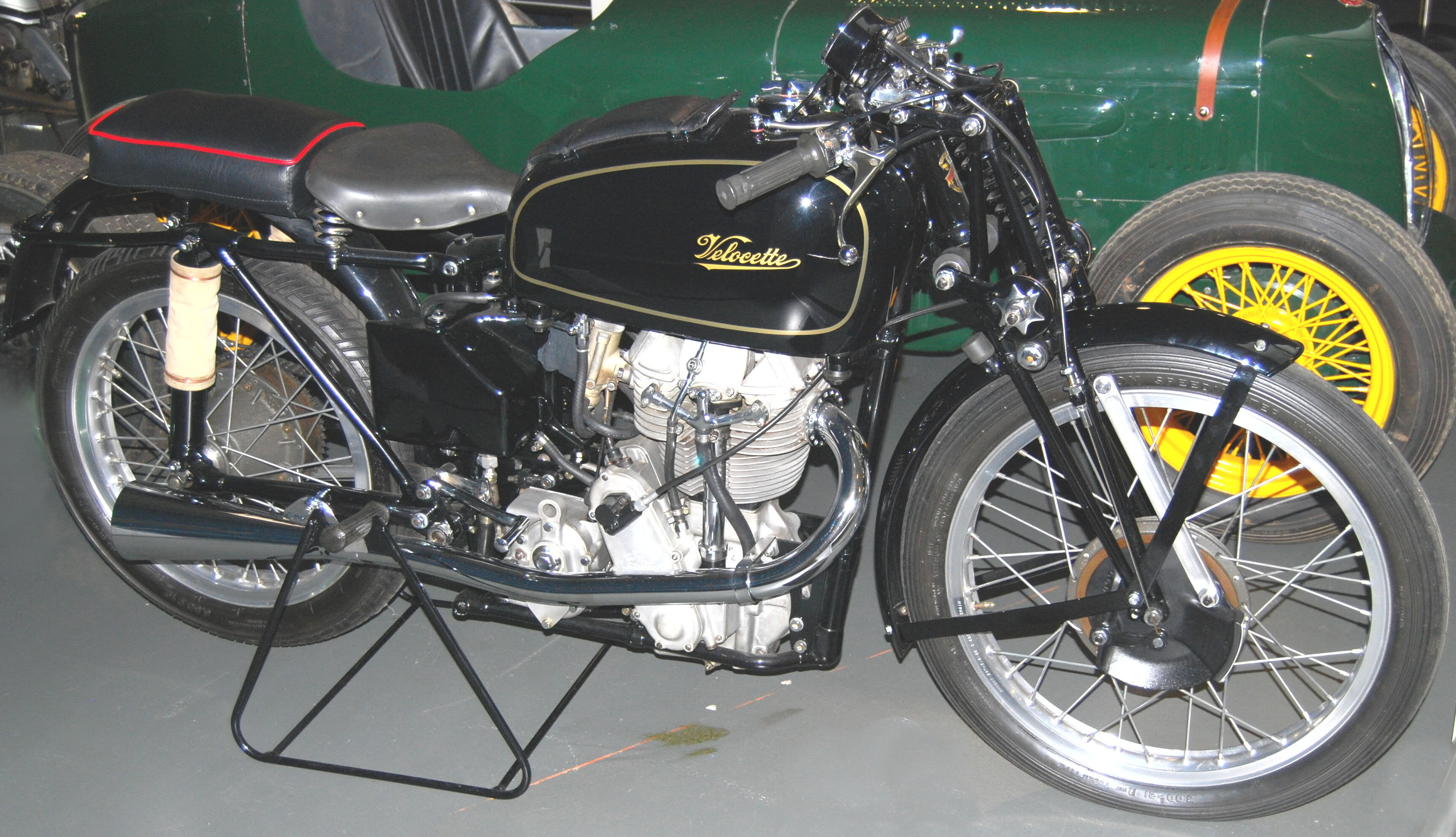 1948 Velocette KTT Mk VIII Motorcycle on display at the National Motor Museum, Birdwood, South Australia